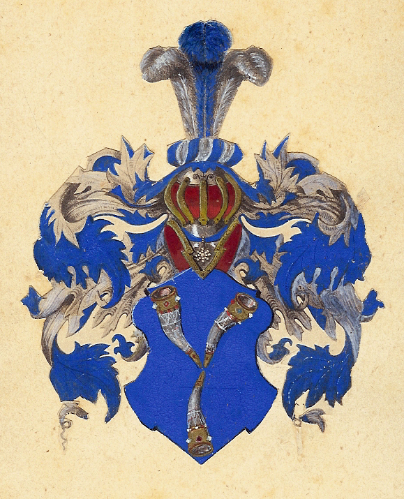 The coat of arms of the Baudissin/Bauditz family. 3 silver drinking or hunting horns. One blue ostrich feather in between two white on the helmet. Hand coloured version that has been in the possession of the Bauditz family.